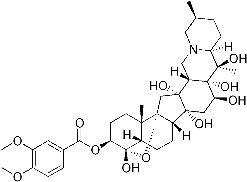 chemical structure of veratridine